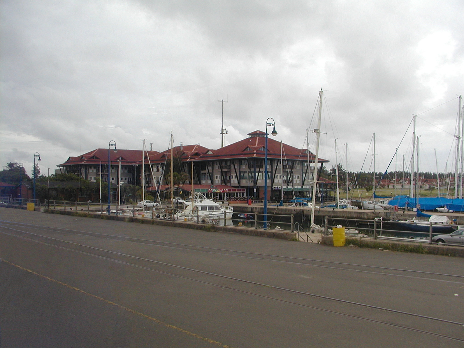 Small craft harbour at Richards Bay, South Africa. The wide tarred Newark road leads to the end of the jetty a few kilometers away. The international deep sea harbour lies south east on another side of the bay, not directly reachable from the road in the picture.